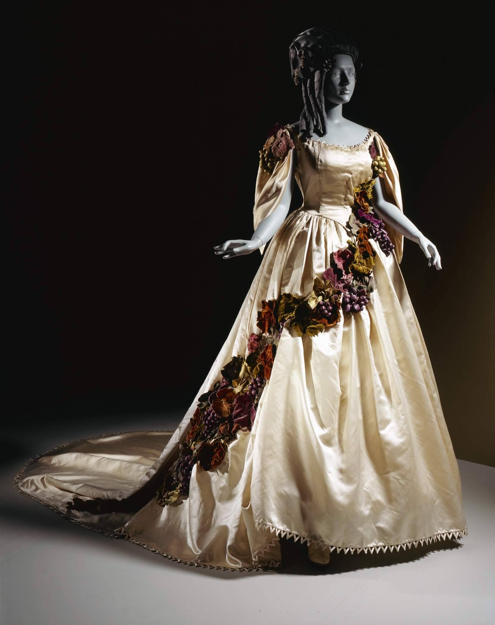 France, 1861-1867 Costumes; principal attire (entire body) Silk satin, velvet Purchased with funds provided by Rita and Ross Barrett, Costume Council Fund, and gift of Anna Bing Arnold (M.87.80.15) Costume and Textiles